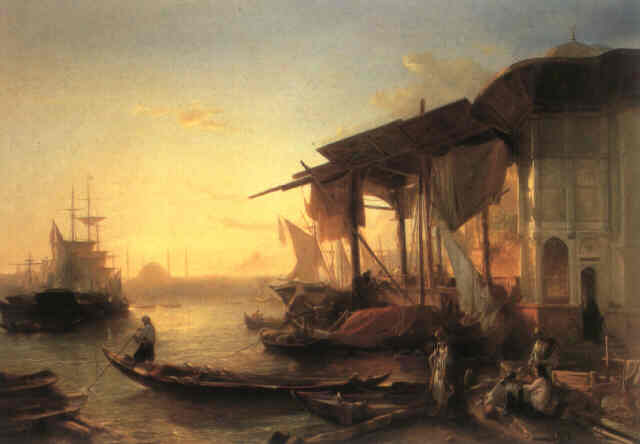 Merchant vessels off the turkish coast, a view of Istanbul beyond. Oil on Panel. 24.7 x 38.3 in.